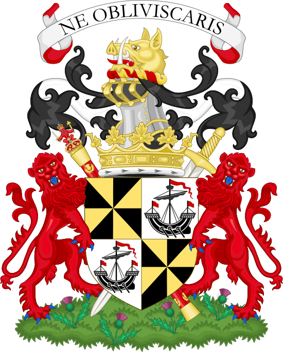 coat of arms of the duke of Argyll Arms. Quarterly: 1st and 4th, Gyronny of eight Or and Sable (Campbell); 2nd and 3rd, Argent a Lymphad Sable sails furled flag and pennants flying and oars in action proper (the Lordship of Lorne); in saltire behind the shield a Baton Gules powdered with Thistles Or ensigned with an Imperial Crown proper thereon the Crest of Scotland (as Hereditary Great Master of the Household in Scotland) and a Sword proper hilted and pommelled Or (as Hereditary Lord Justice General of Scotland). Crest. A Boar's Head fesswise erased Or armed Argent and langued Gules. Supporters. On either side a Lion guardant Gules. Motto. Ne Obliviscaris (Forget not). Cracroft's Peerage